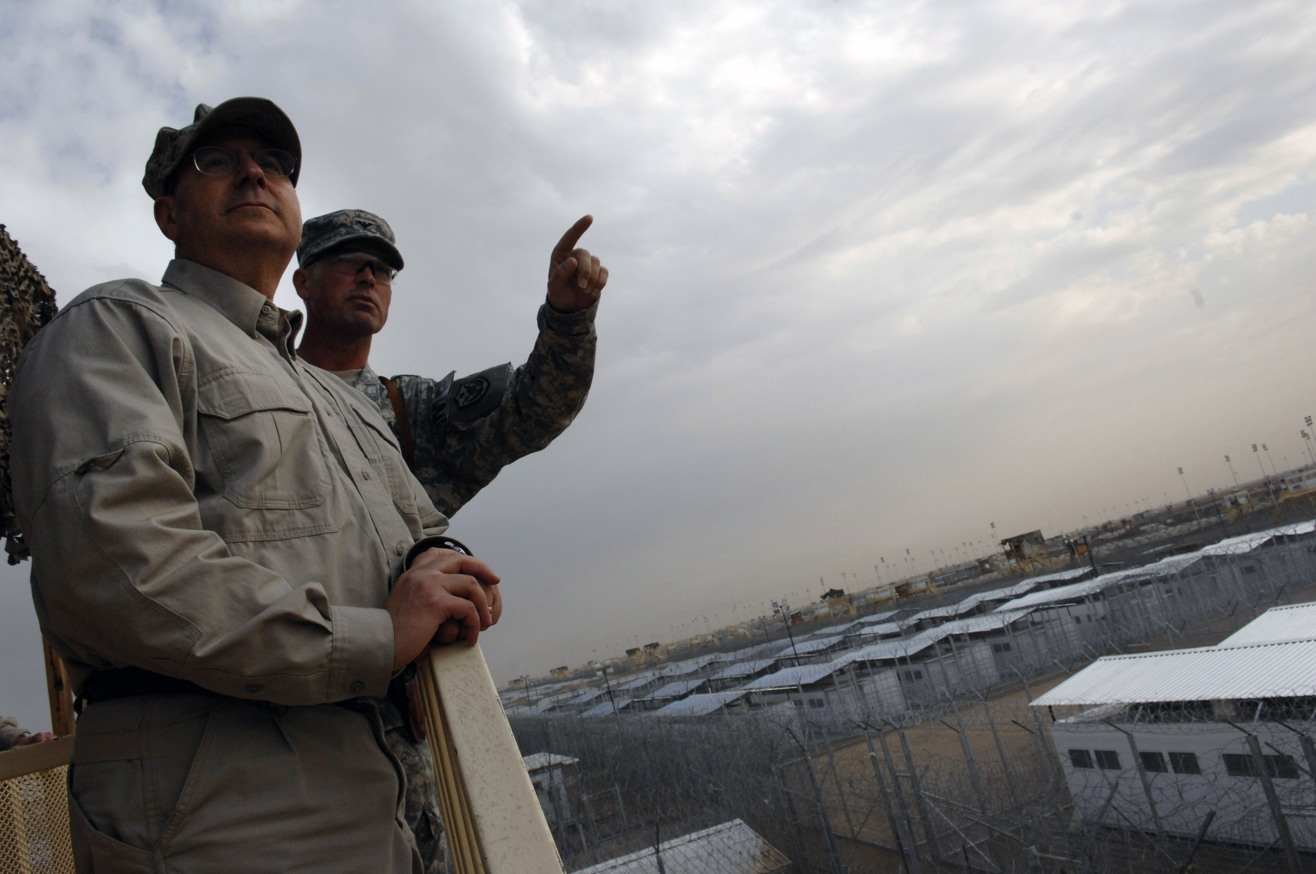 CAMP BUCCA, Iraq (Nov. 23, 2007) Secretary of the Navy (SECNAV) the Honorable Dr. Donald C. Winter receives at tour of a Theater Internment Facility at Camp Bucca. SECNAV is visiting Sailors and Marines in the Central Command area of responsibility. U.S. Navy photo by Mass Communication Specialist 2nd Class Kevin S. O'Brien (Released)